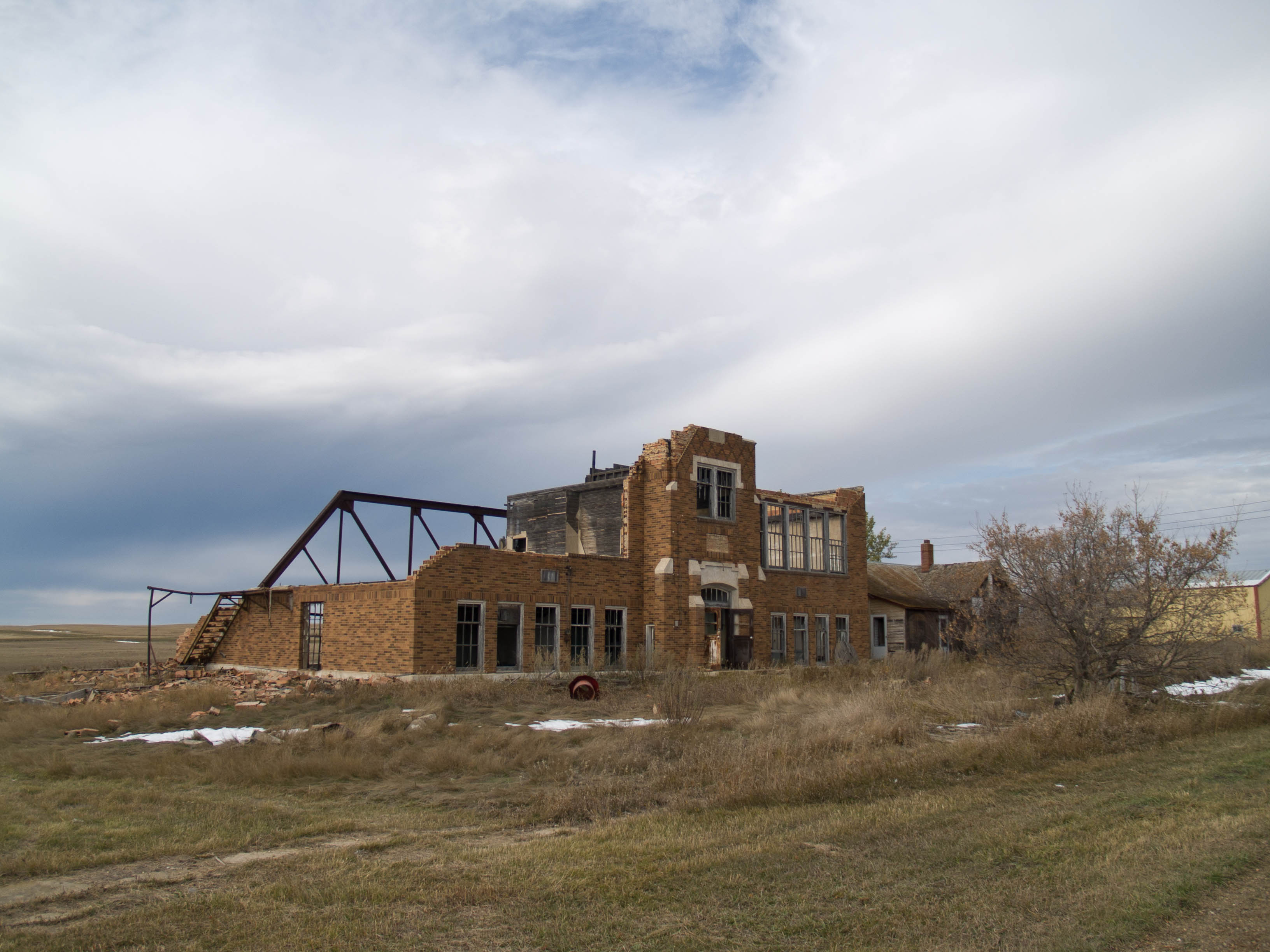 Abandoned building in Wheelock, North Dakota. From